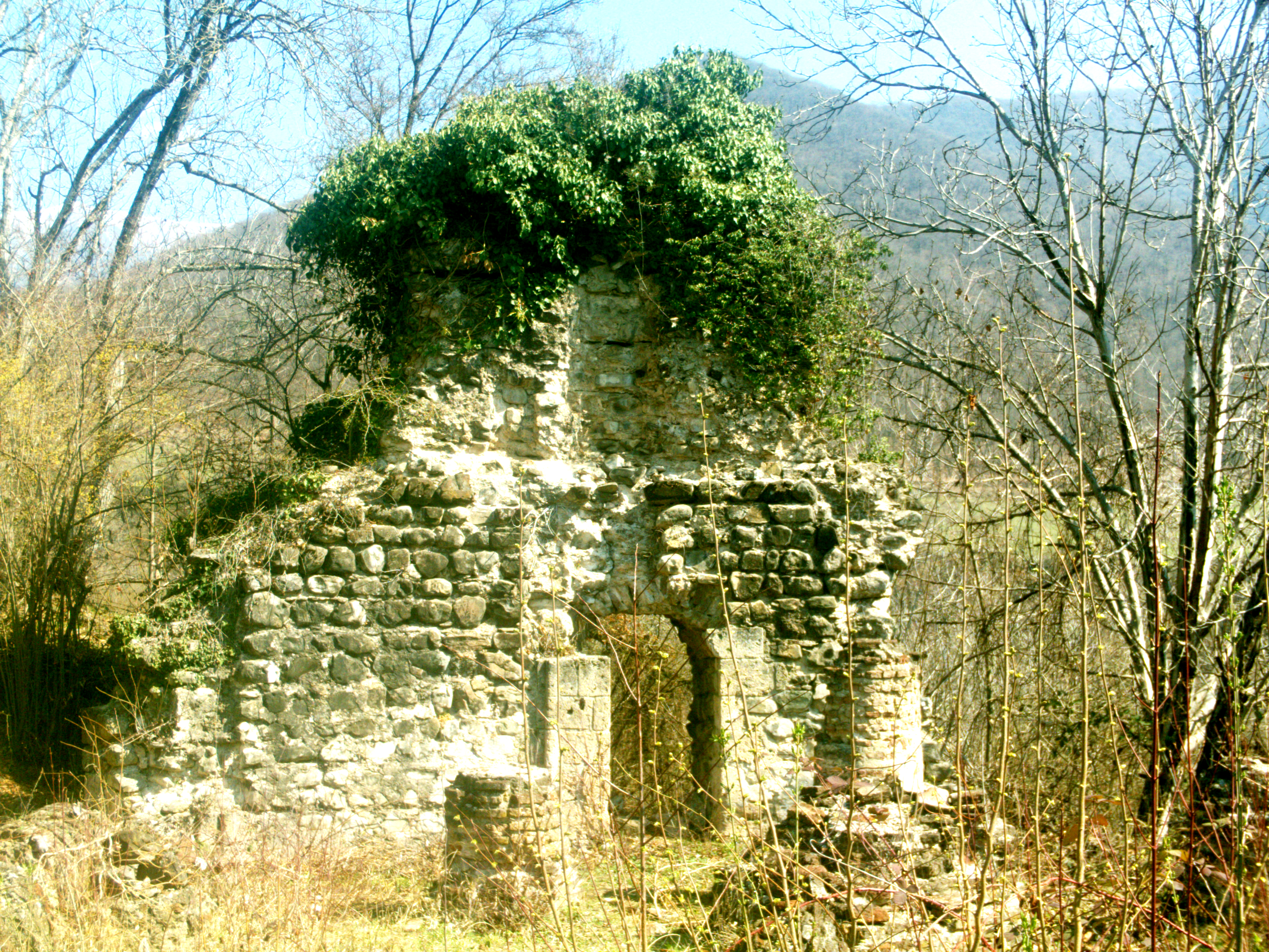 Lekiti St. Nino round temple